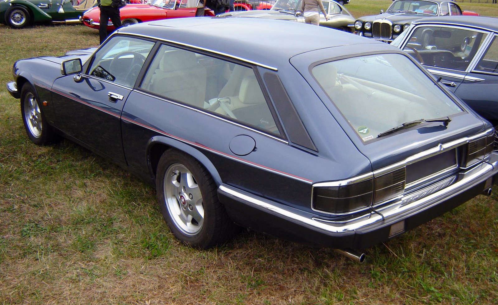 Rear view of facelift version of Lynx Eventer (Jaguar XJ-S shooting brake) at the Autodrome de Linas-Montlhéry, 2009